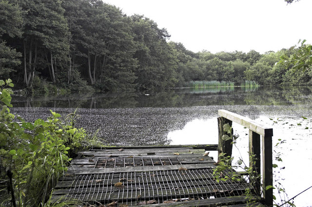 Llyn Bedydd Pool.